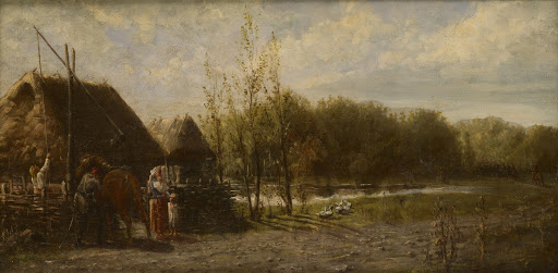 Rebel Sentry near a Forest